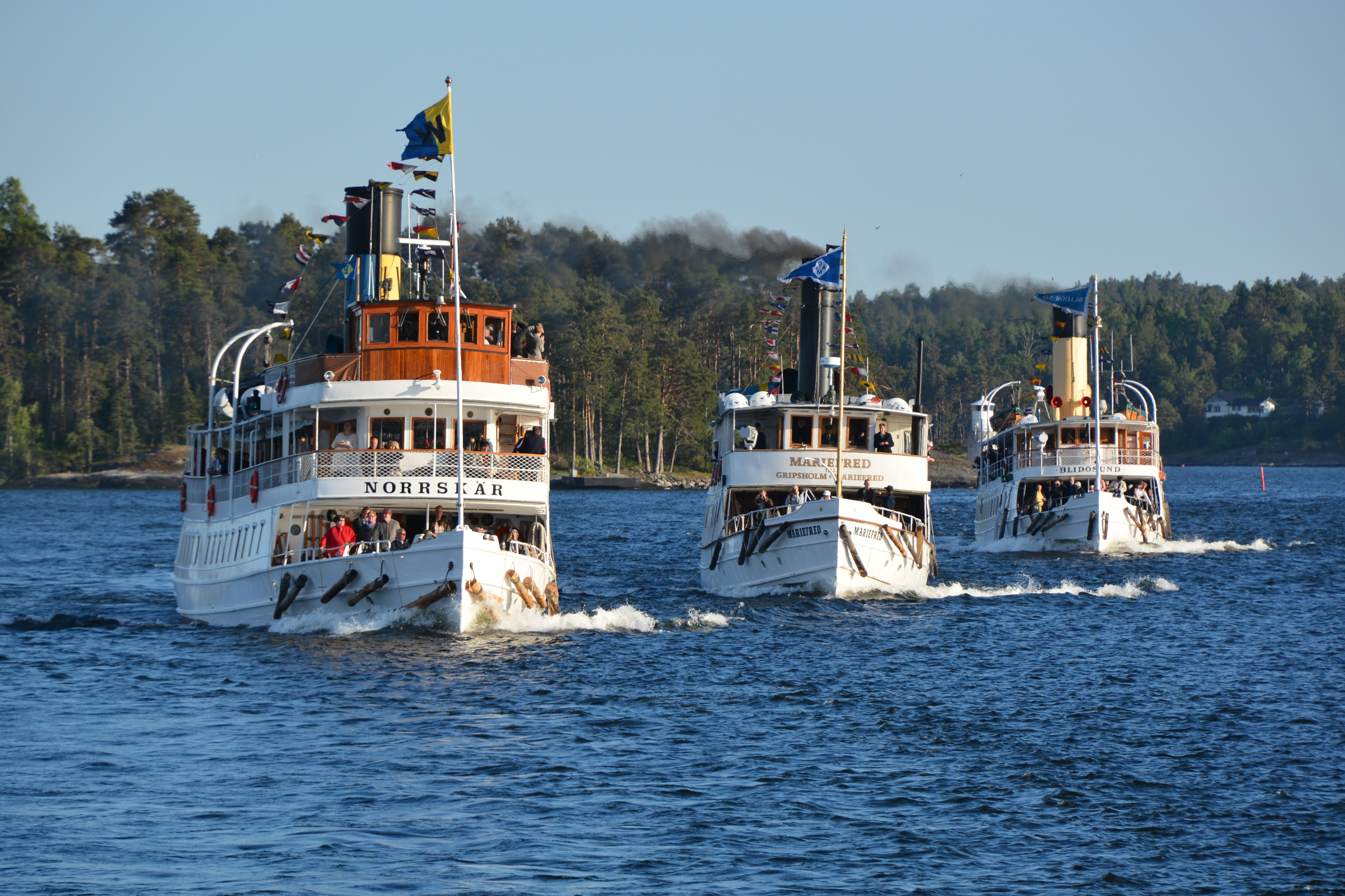 Steamers Norrskär, Mariefred och Blidösund in the Stockholm archipelago. The picture is taken from the steamer Storskär during the yearly event "Skärgårdsbåtens dag" 2015 just south of the town of Vaxholm, a little less than one hour of sailing from Stockholm.